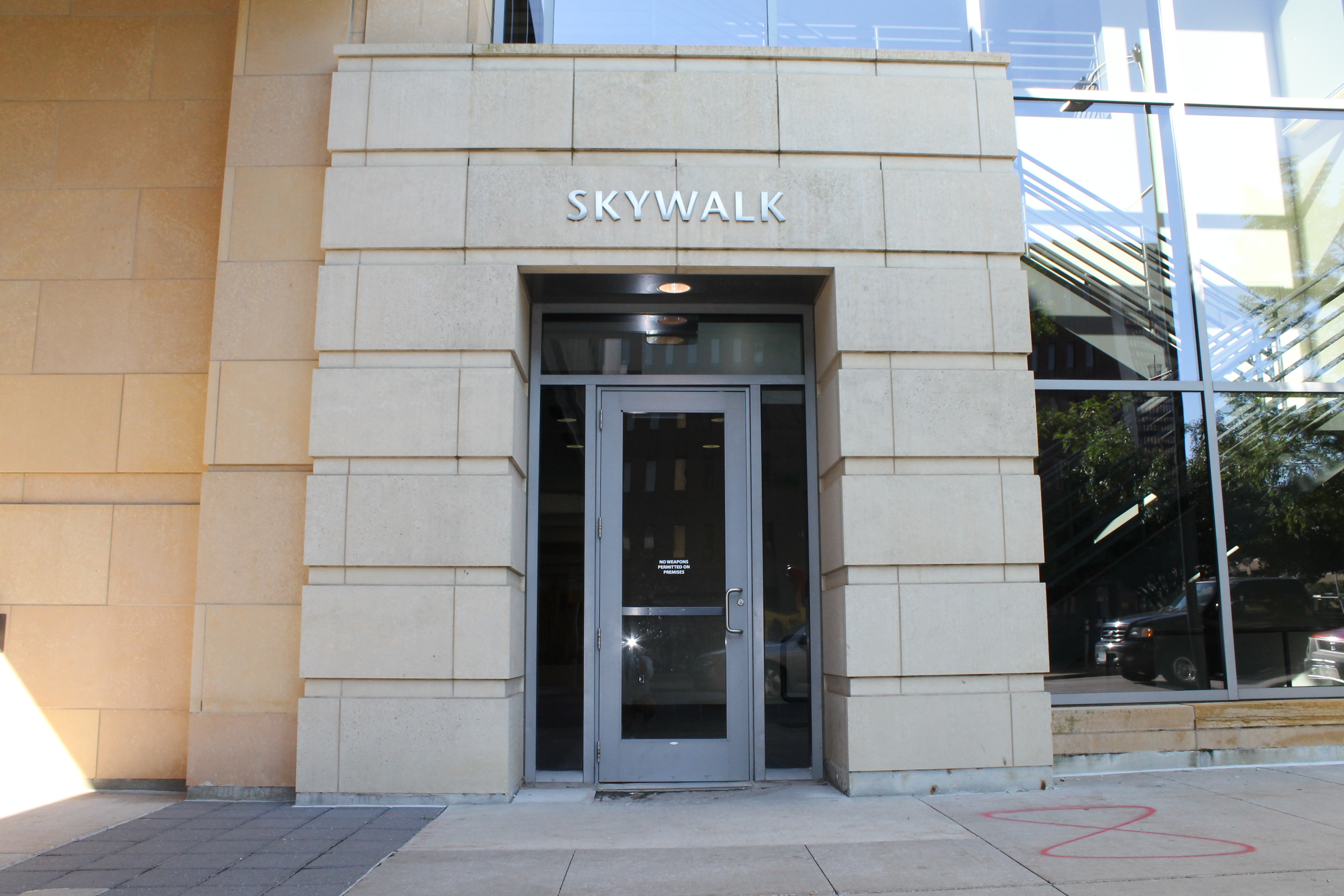 A newer street level entrance to the Des Moines Skywalk System.